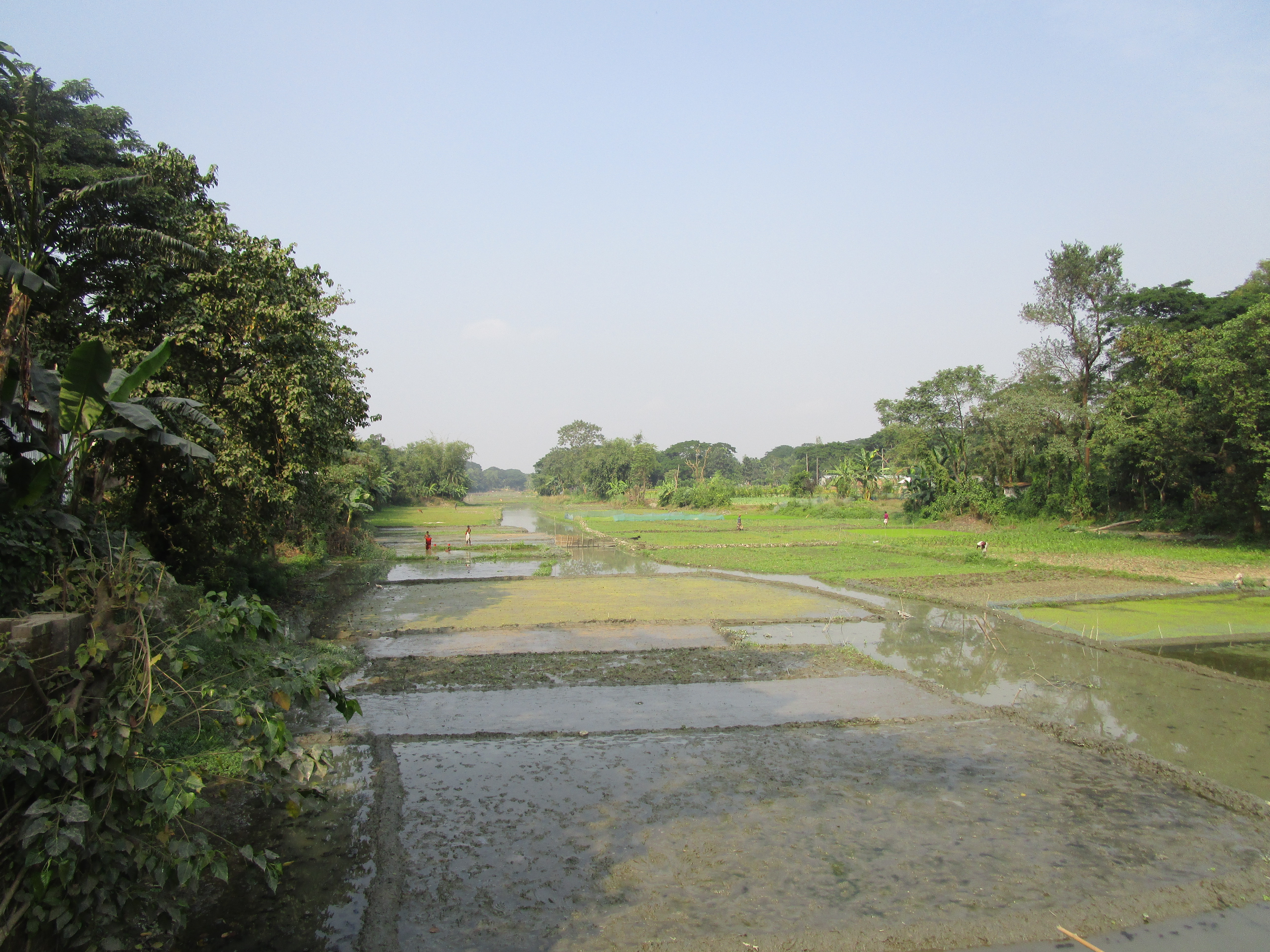 Sutia River at Dapunia Bazar, Mymensingh Sadar Upazila.